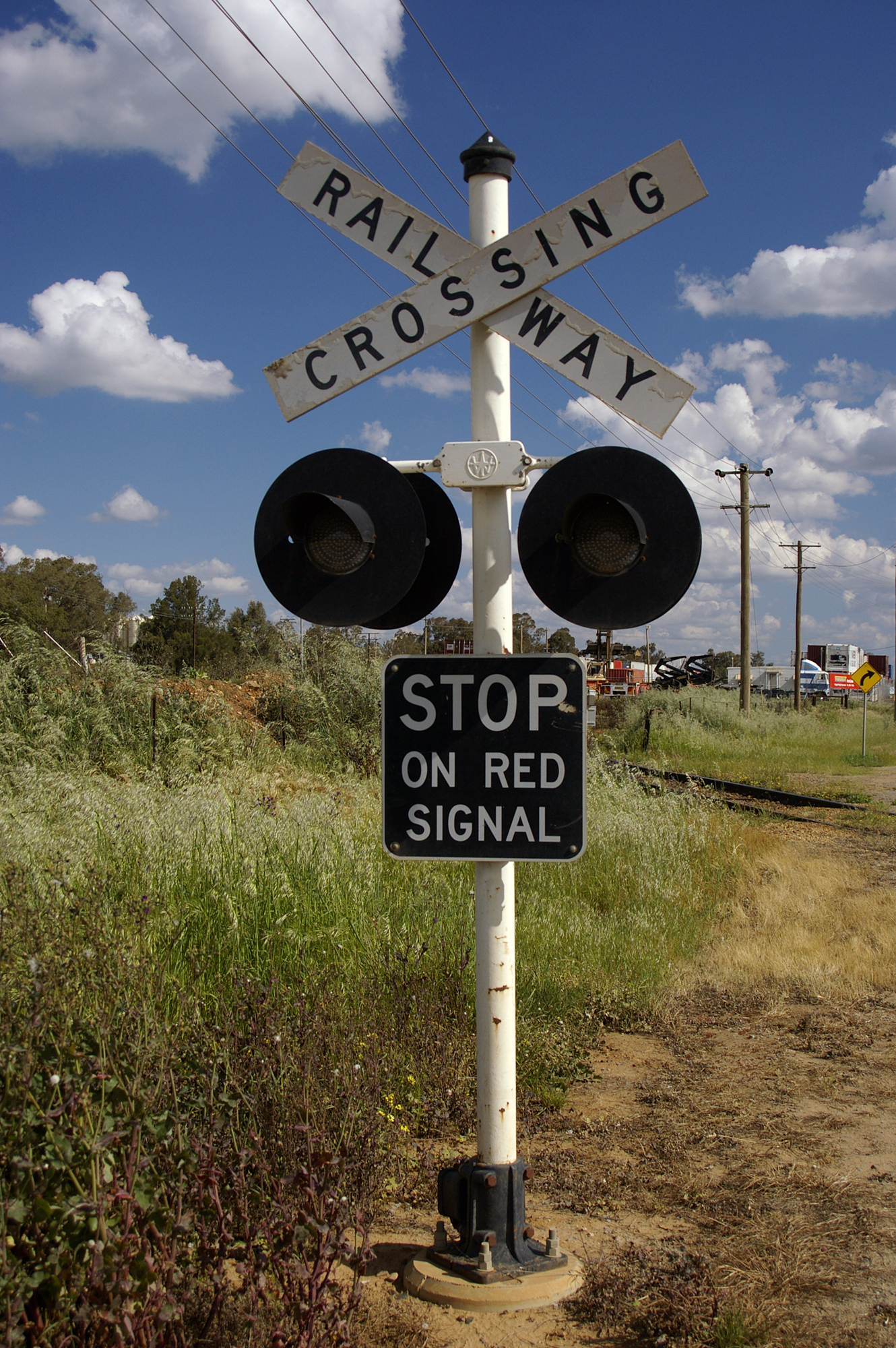 LED railway level crossing signal in Australia.